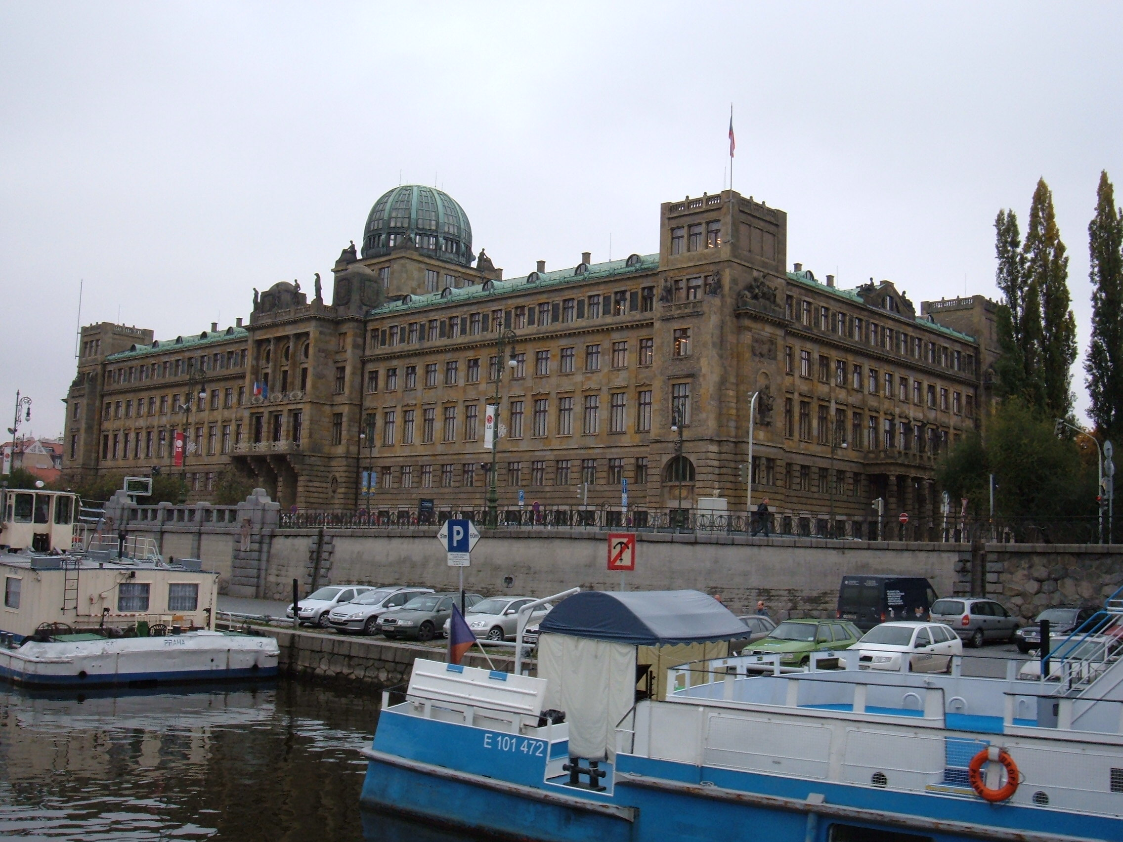 On the Vltava in Prague, Czech Republic.